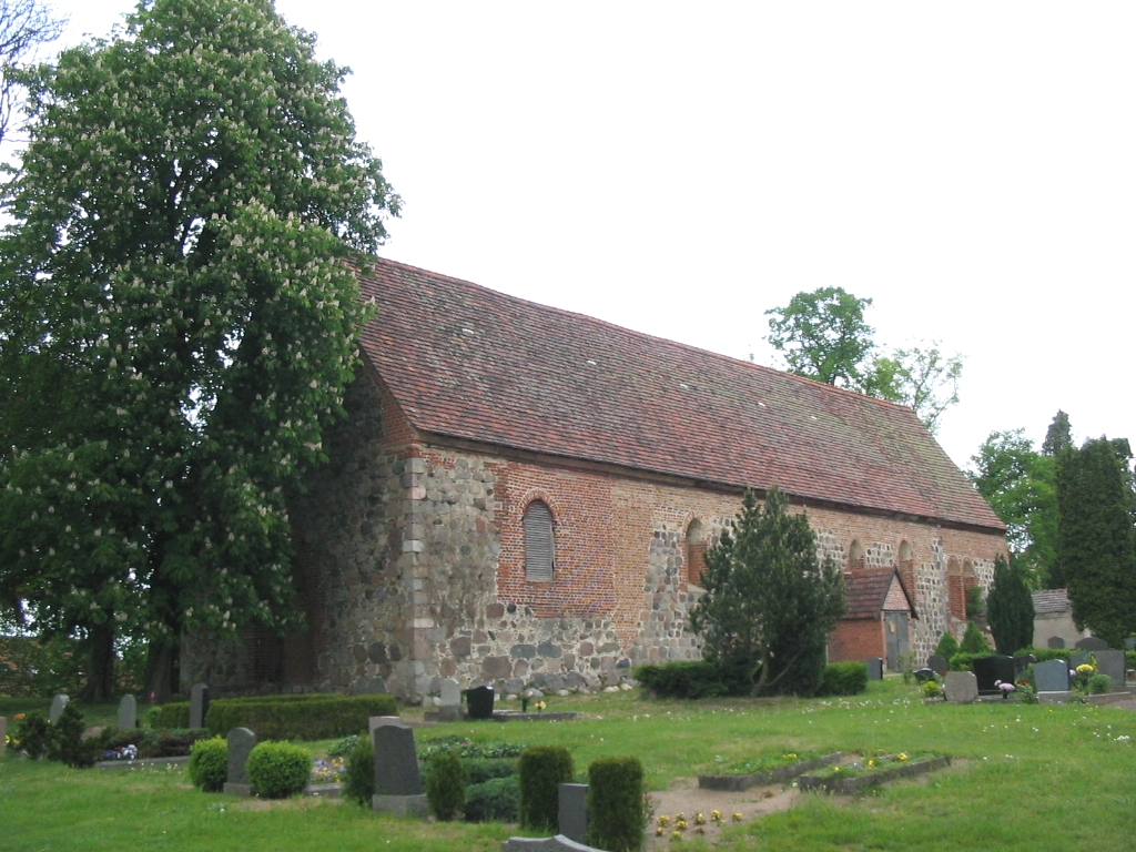 Church of Lüdershagen near Hoppenrade, district Güstrow, Mecklenburg-Vorpommern, Germany